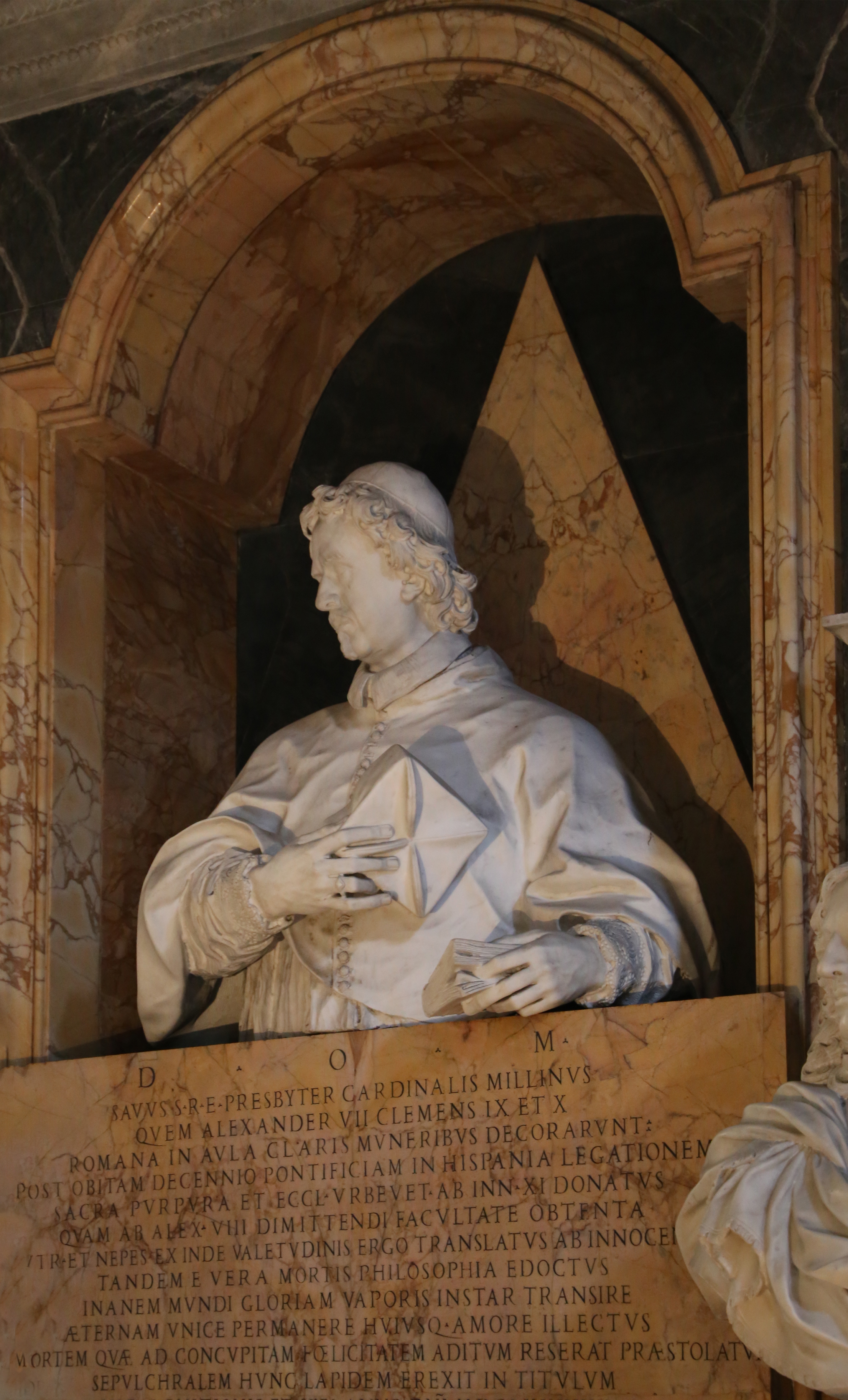 Santa Maria del Popolo (Rome) - Cappella Mellini